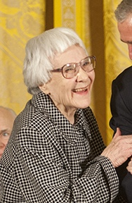 US writer Harper Lee during Medal of Freedom ceremony at the White House depicted person: Harper Lee (age: 81.52)